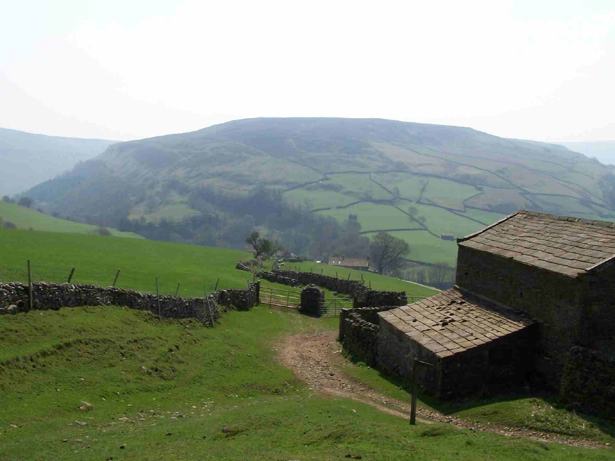 Kisdon seen from the Pennine Way above Keld Personal photograph taken by Mick Knapton on May 8th 2006